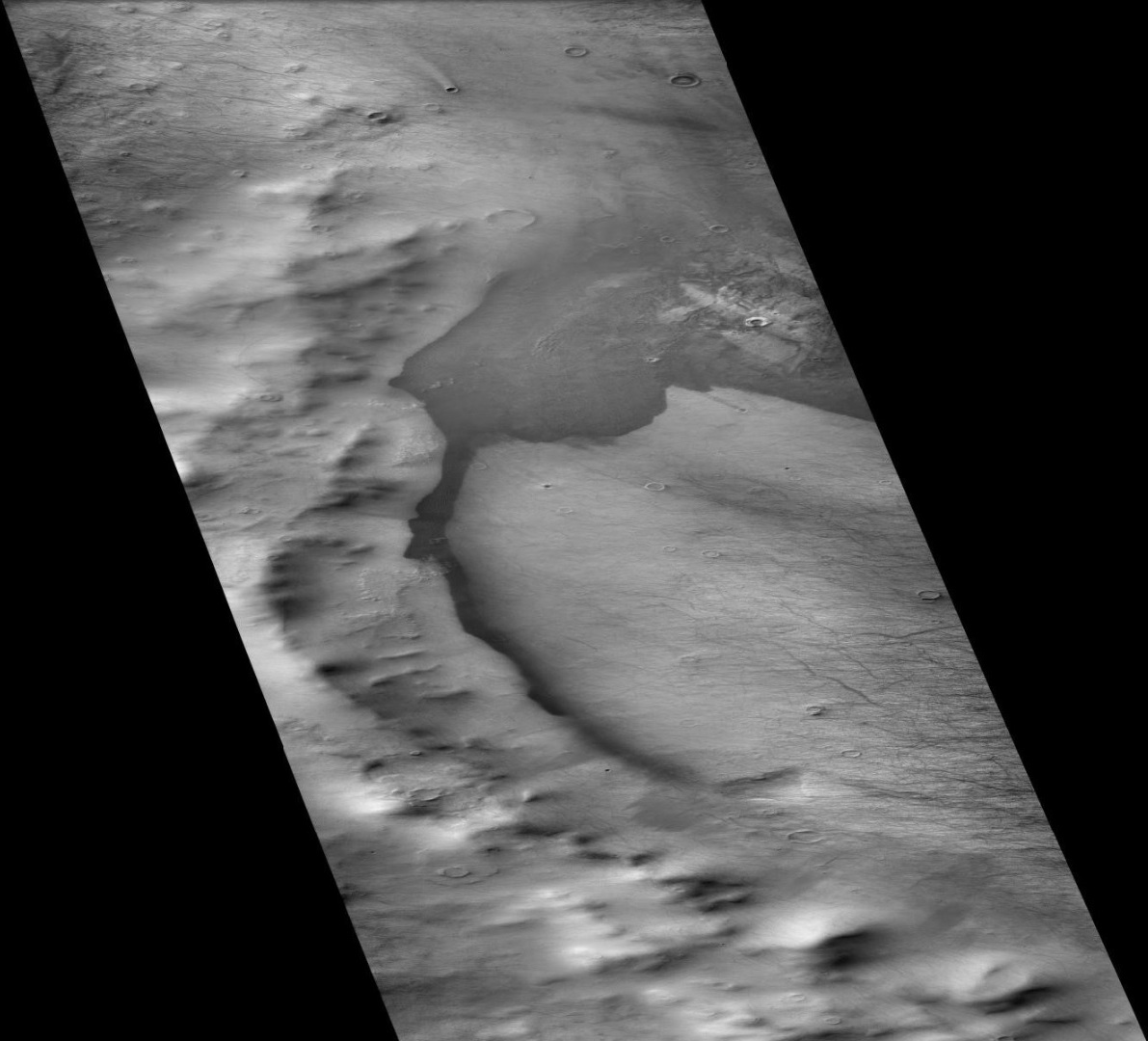 Western side of Mitchel Crater, as seen by ctx